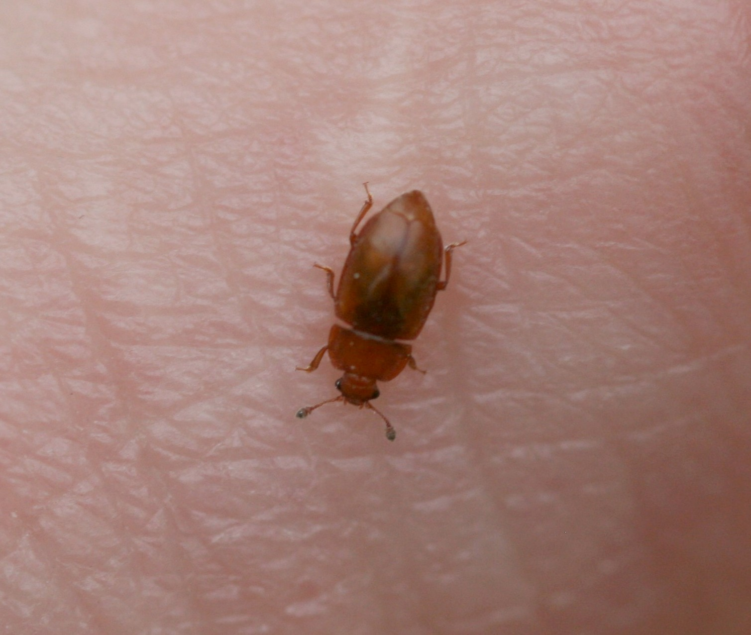 A species of Pollen Beetle (Epuraea)